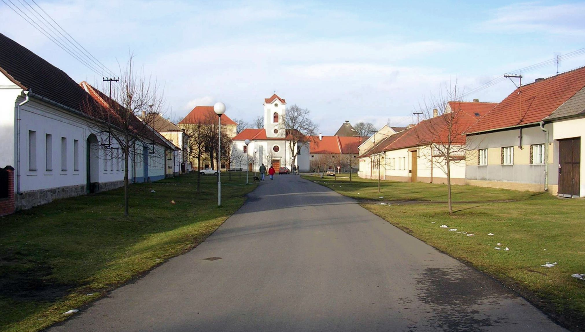 Kestřany, the Czech Republic.